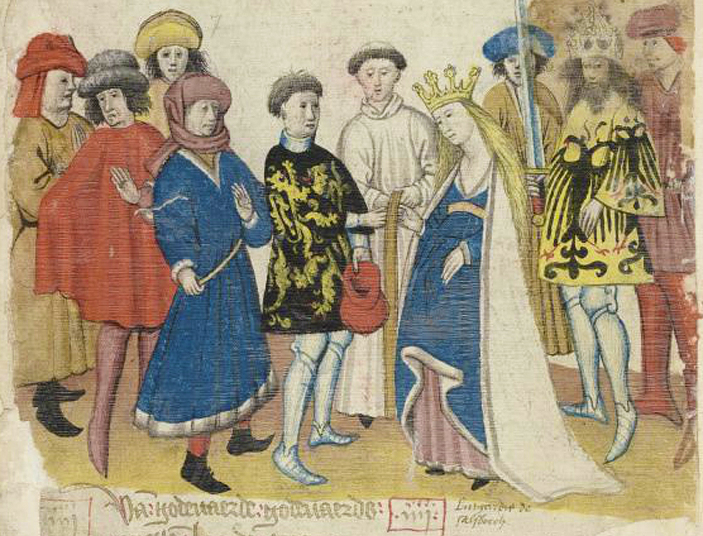 Marriage of Godfrey II of Leuven and Lutgarde of Sulzbach